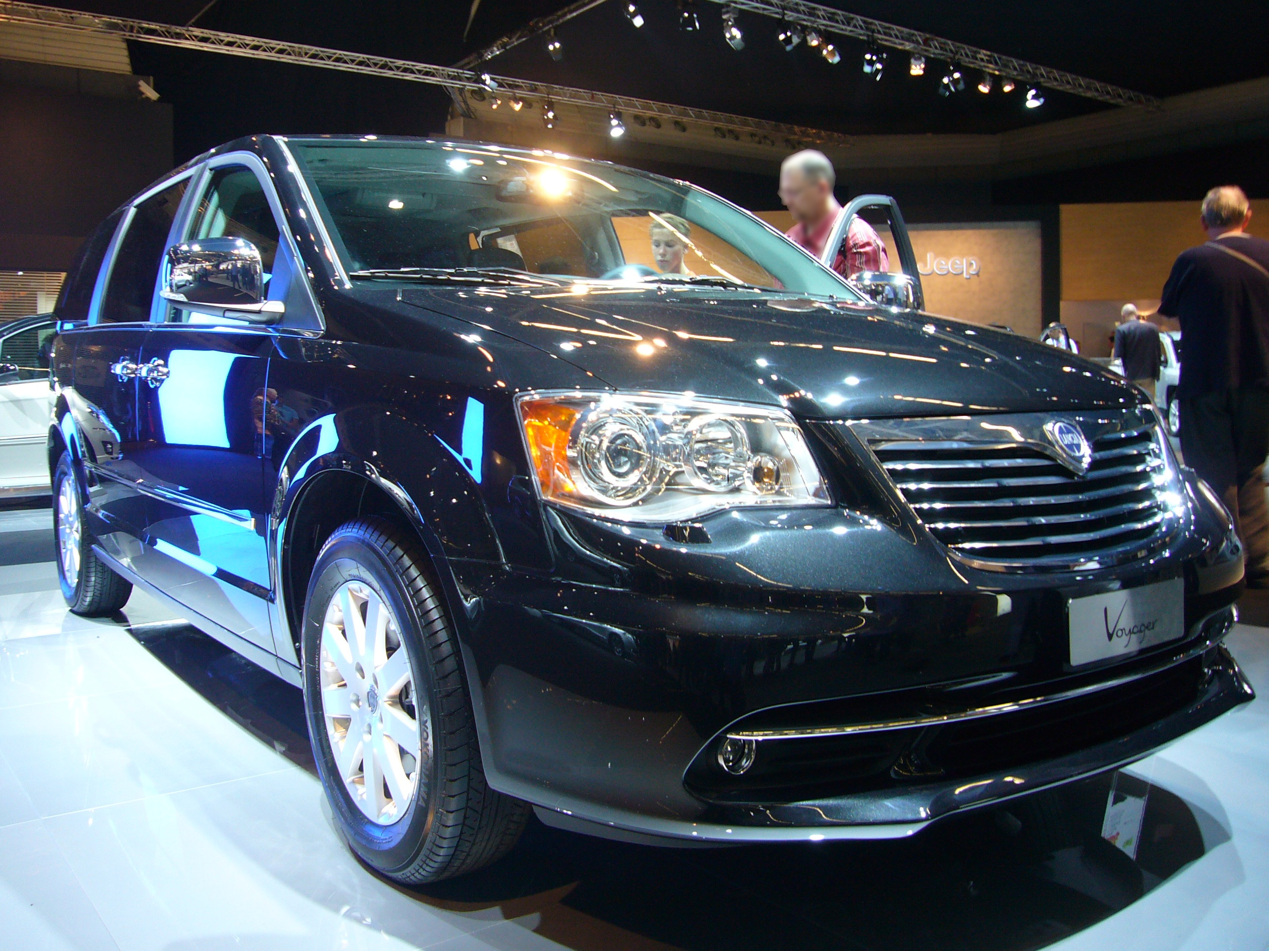 Lancia Voyager at AutoRAI Amsterdam 2011